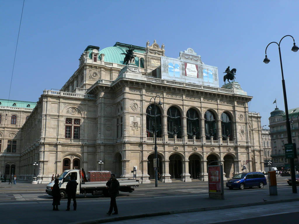 Austria, Vienna, Vienna State Opera